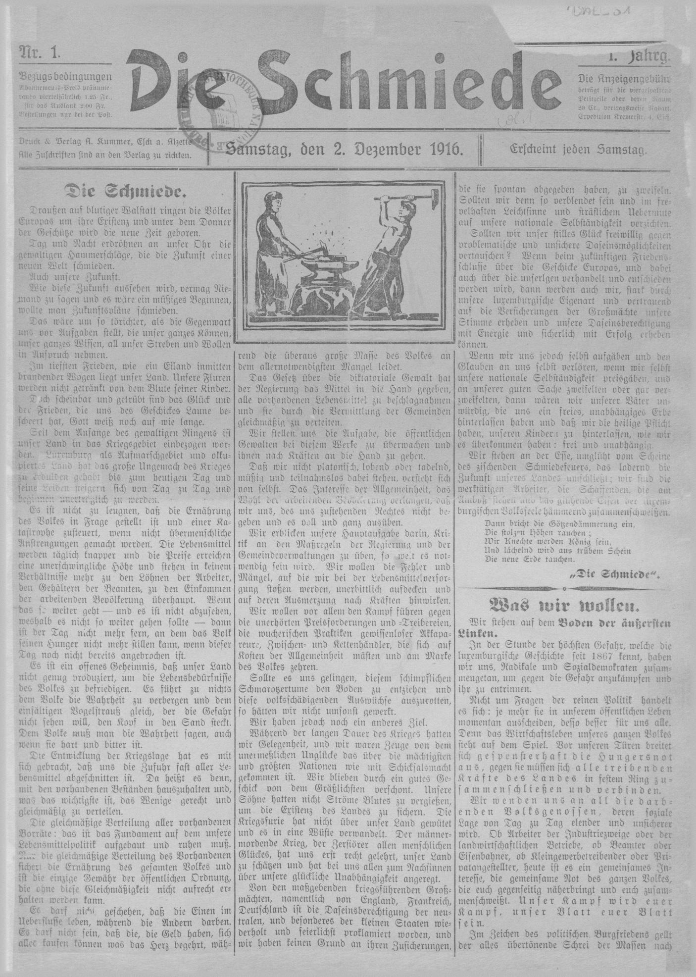 Front page of the first issue of the Luxembourgish weekly newspaper Die Schmiede from the 2nd of December 1916.